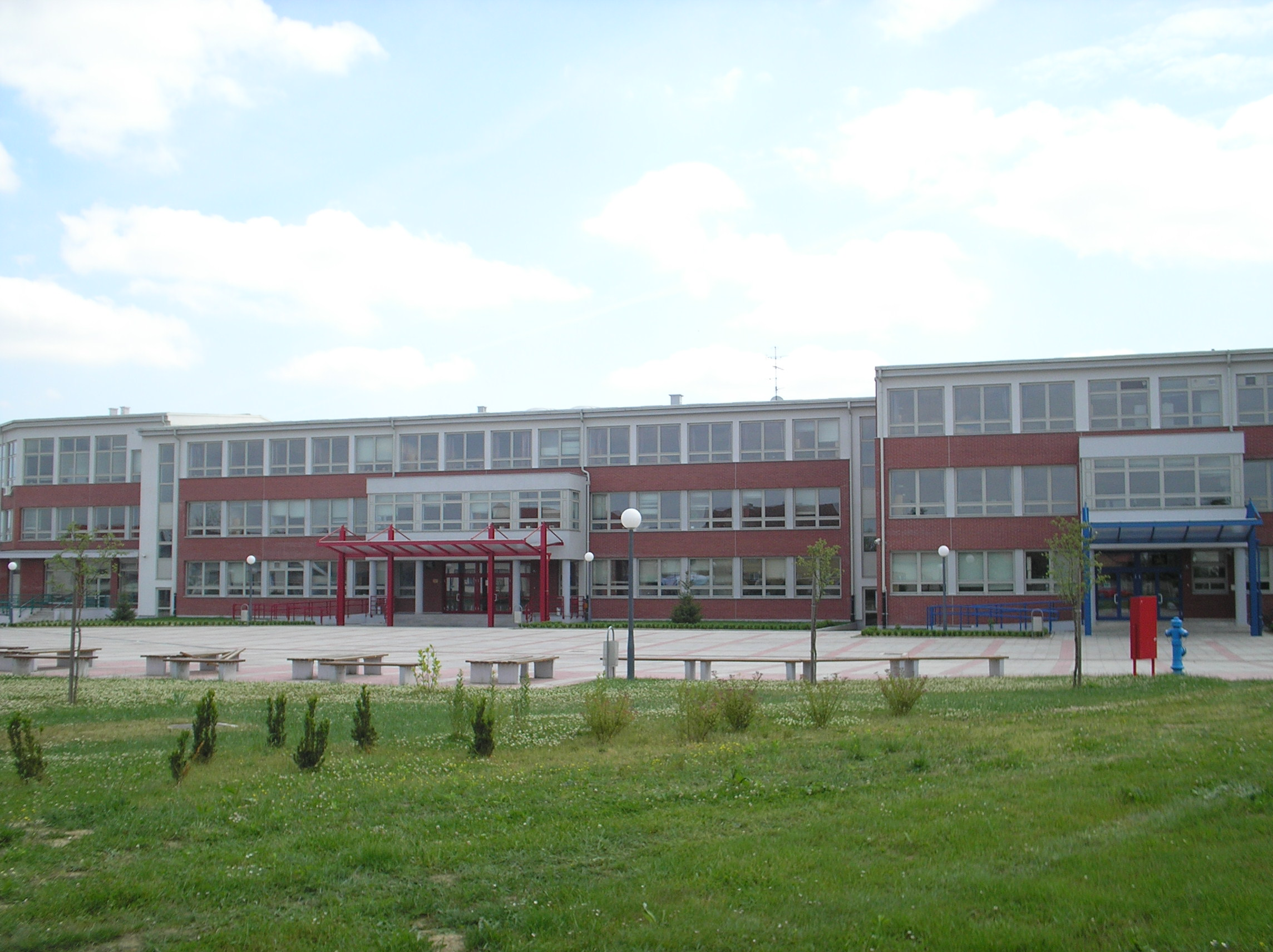 Secondary school center in Bjelovar, CroatiaHrvatski: Srednjoškolski centar u Bjelovaru